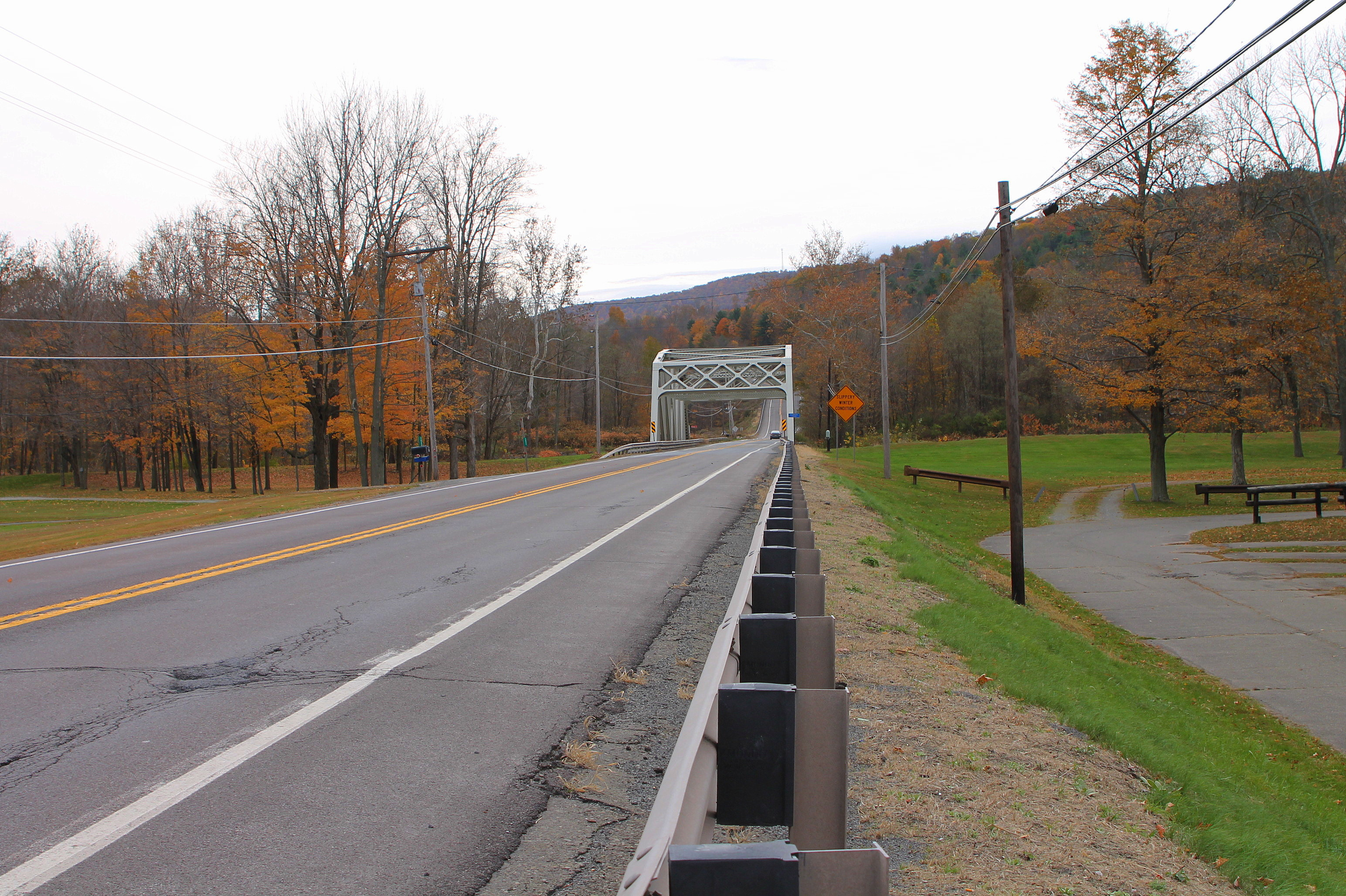 Pennsylvania Route 29 south in Eaton Township, Wyoming County